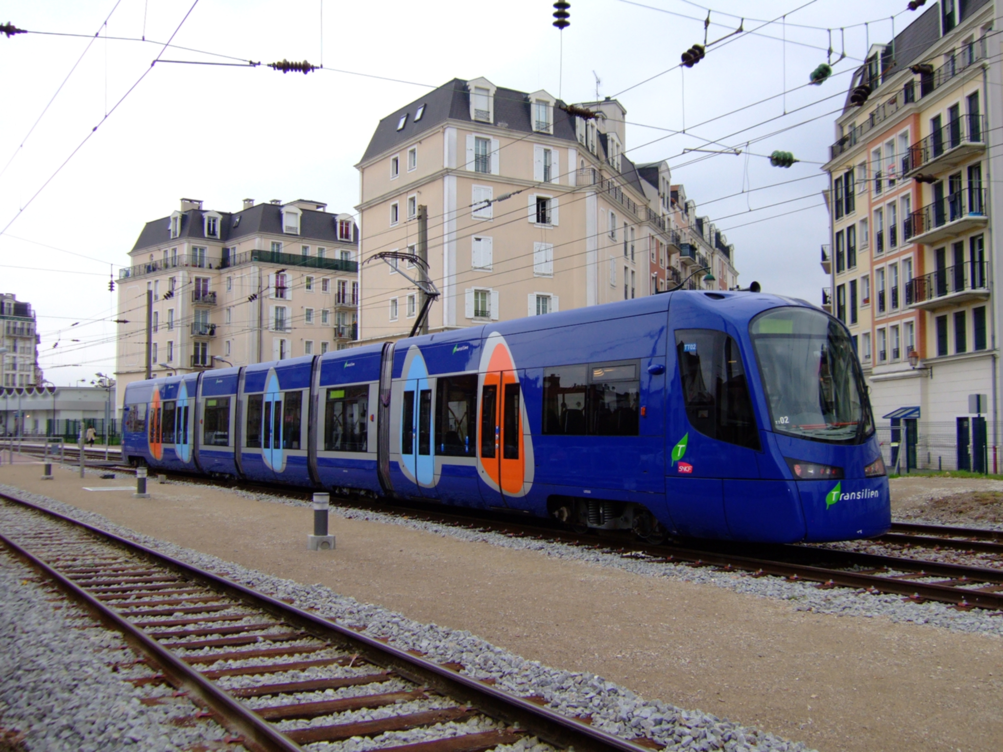 Tram-train U 25500 (Siemens AG constructor, Avento model) on renovated line between Aulnay sous bois and Bondy (both in Seine Saint Denis, France). This line is now named T4 from tramway parisiennetwork. Here a tram is parked on a sidetrack in Gargan station (city of Les Pavillons-sous-Bois).